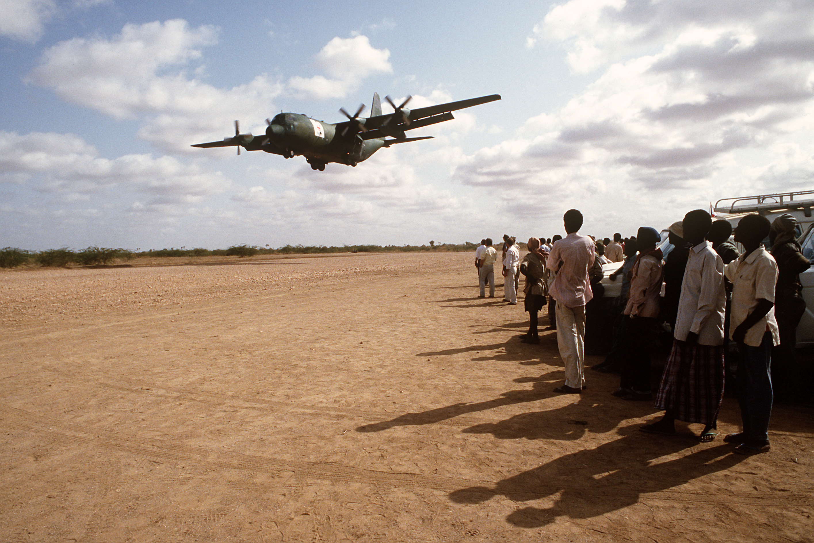 Local Kenyan workers watch a C-130 Hercules from the 314th Air Lift Wing, Little Rock AFB, Arkansas, deliver relief supplies to Wajir, Kenya. The C-130 and it's crew are deployed to Mombassa, Kenya for Operation Provide Relief.